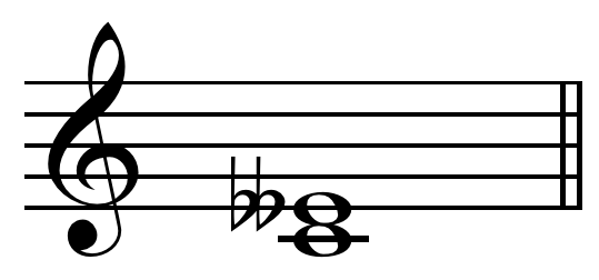 Diminished third on C = E. Just: = 244.97 cents. Equal-tempered: 22/12:1 = 200 cents. Created by Hyacinth (talk) 04:21, 8 January 2011 using Sibelius 5.